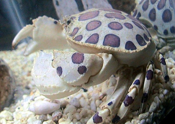 Calico Crab Photographer: LA Dawson